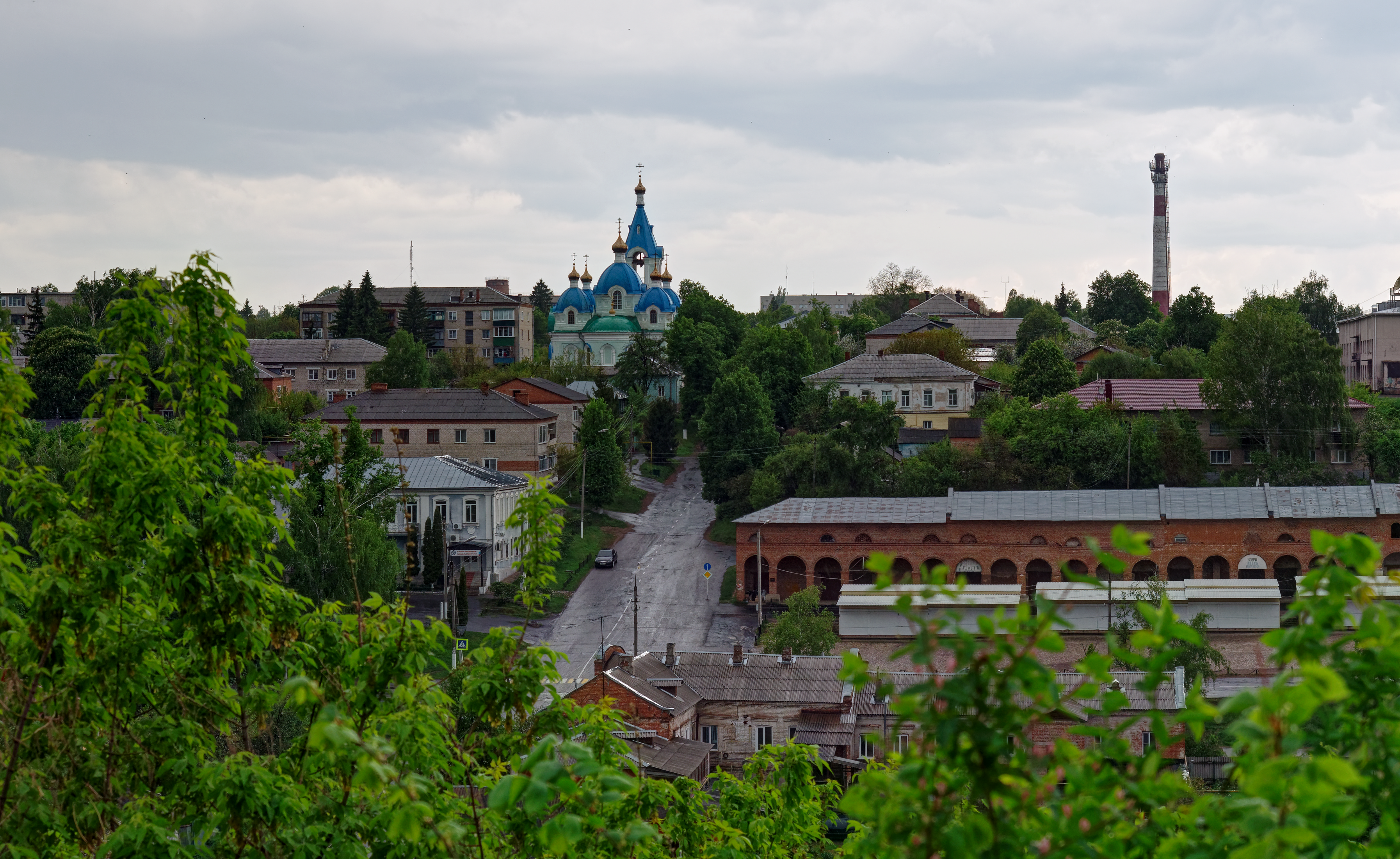 Rylsk